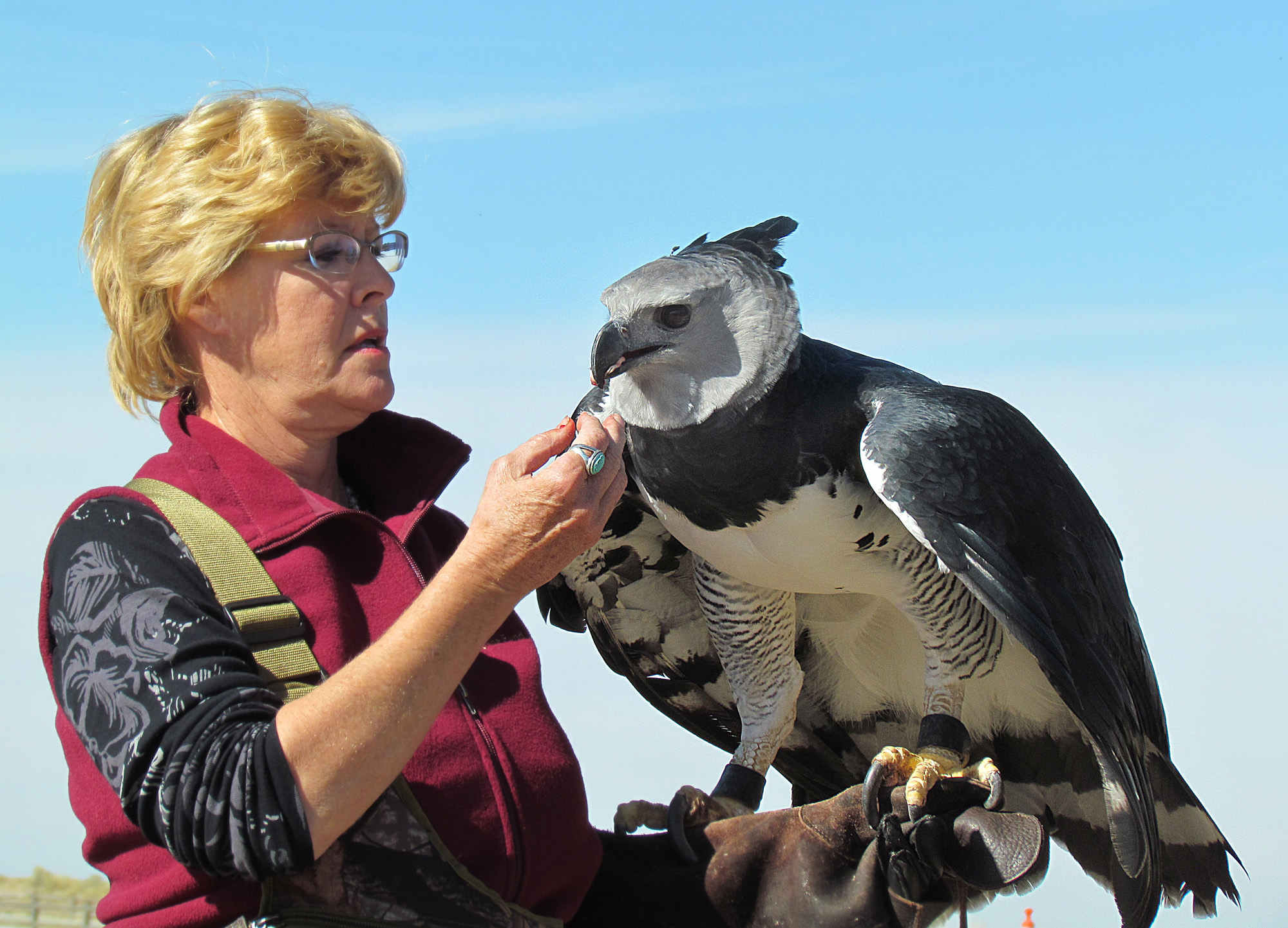 A Harpy Eagle in falconry.